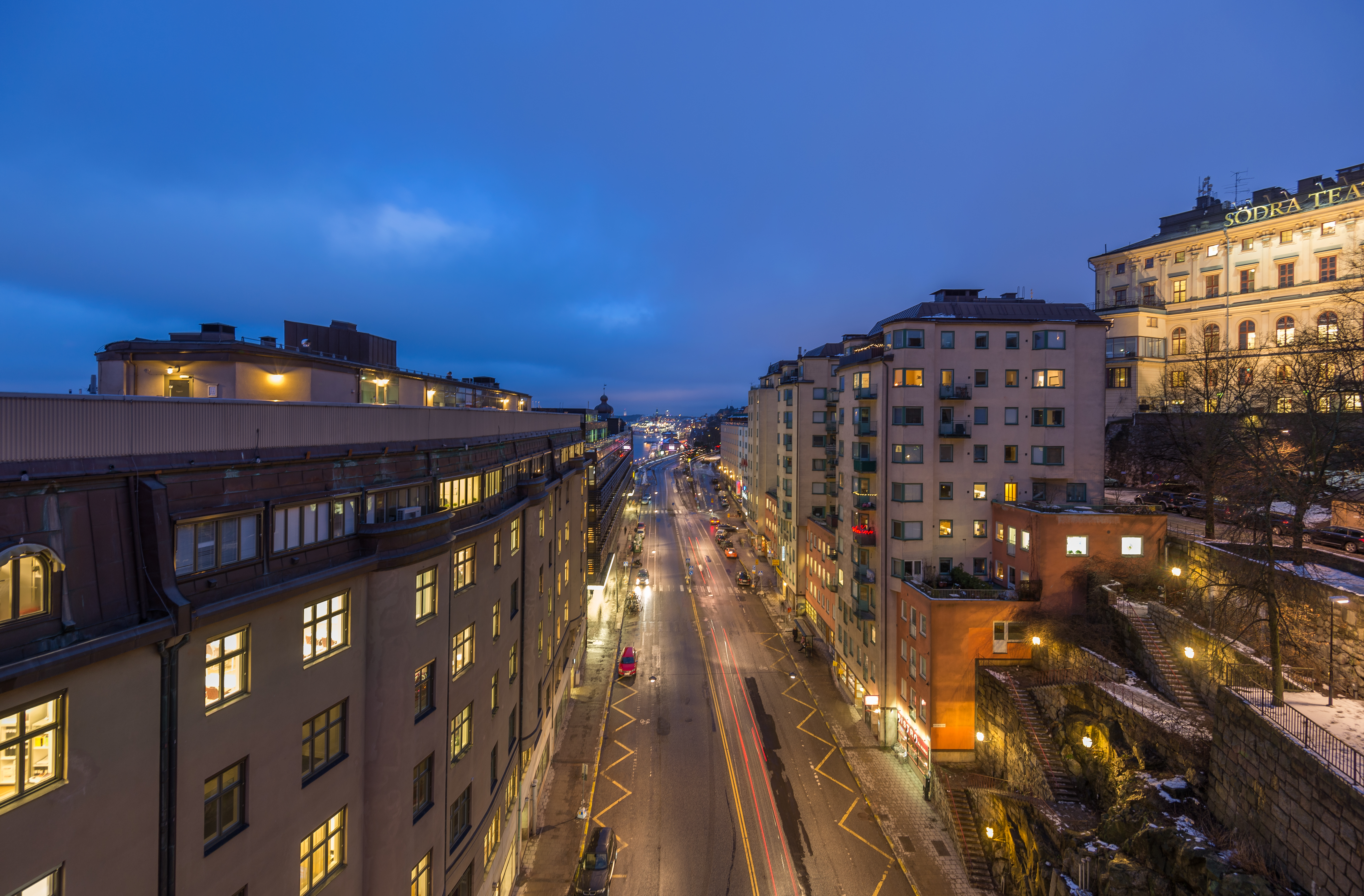 The street Katarinavägen. Södermalm, Stockholm.